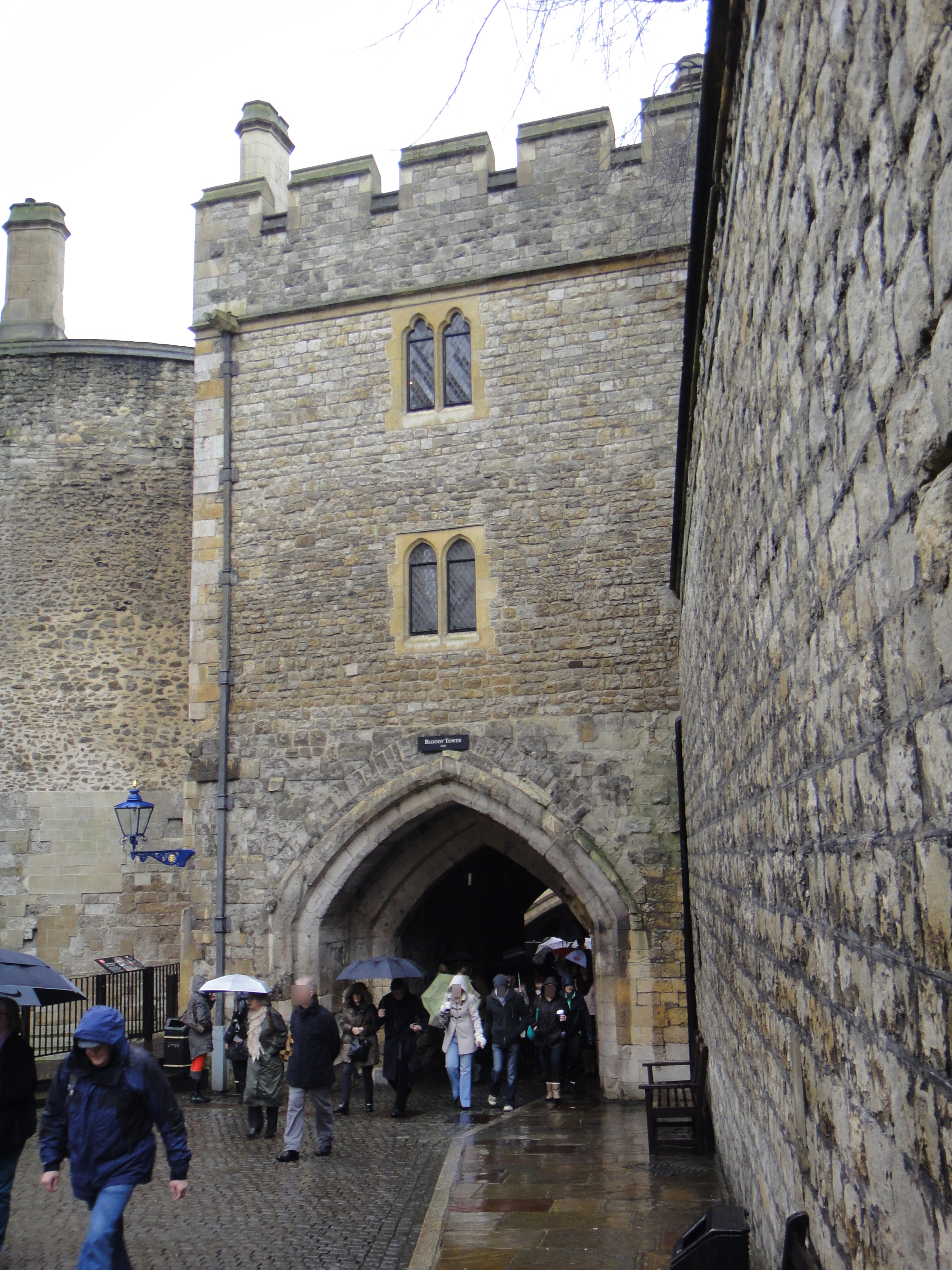 Bloody Tower, Tower of London, in rainy, rainy London